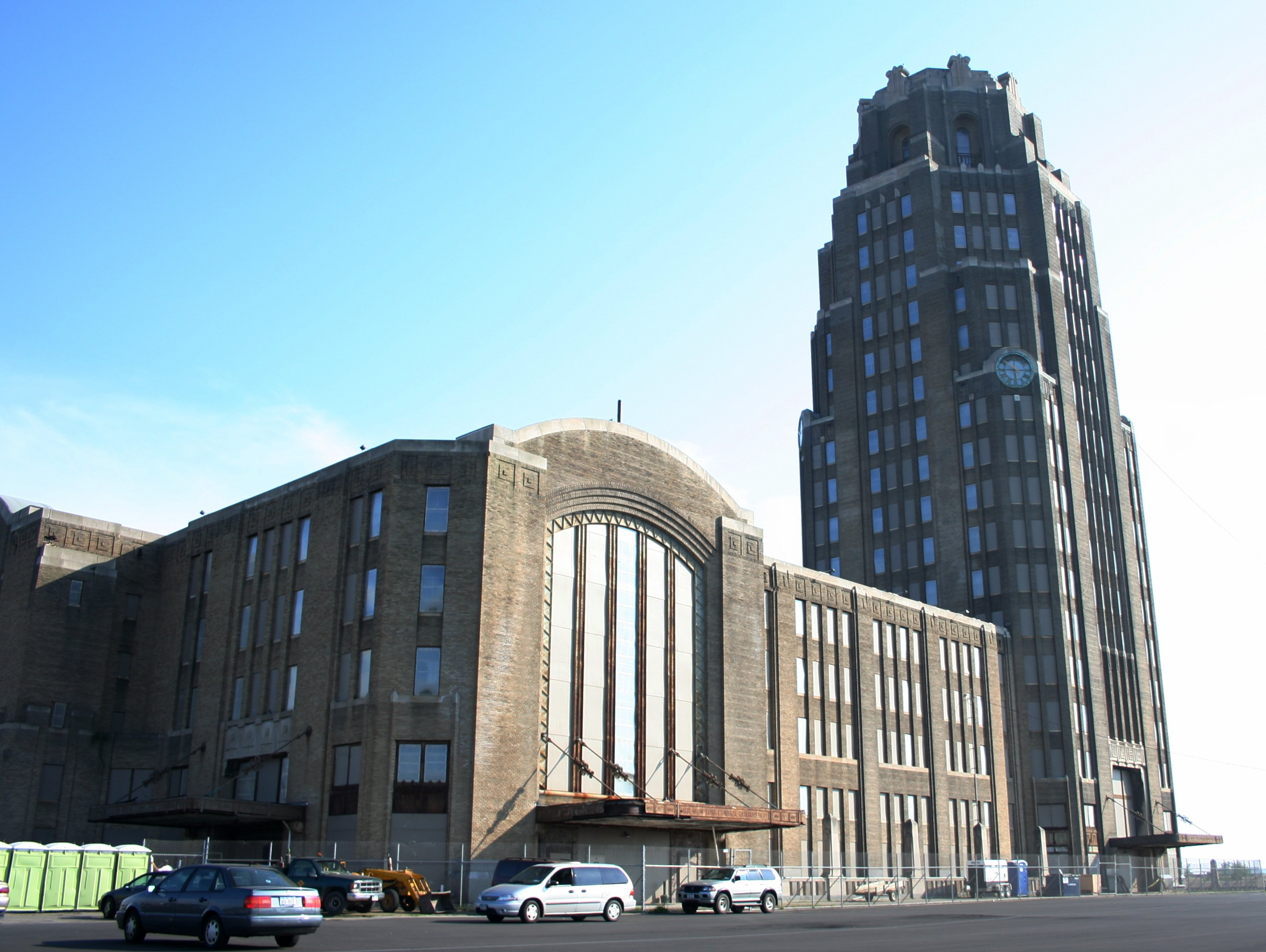 Buffalo Central Terminal, viewed from the north.